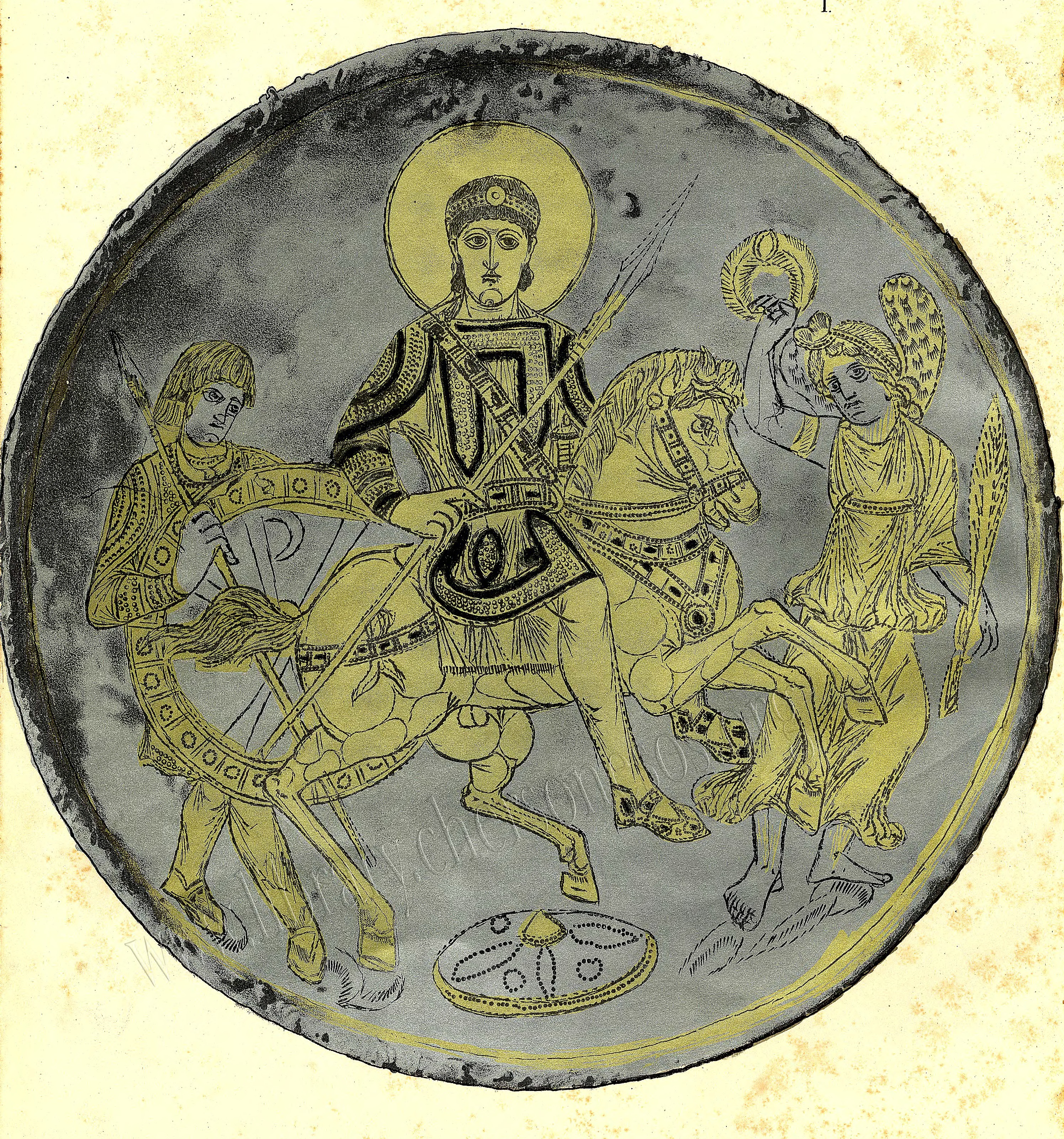 Litography from "Materials about archeology of Russia", v. VIII, 1892 A silver shield, found in Kertch in 1891 with byzantine emperor Justinian I or Constantius II.